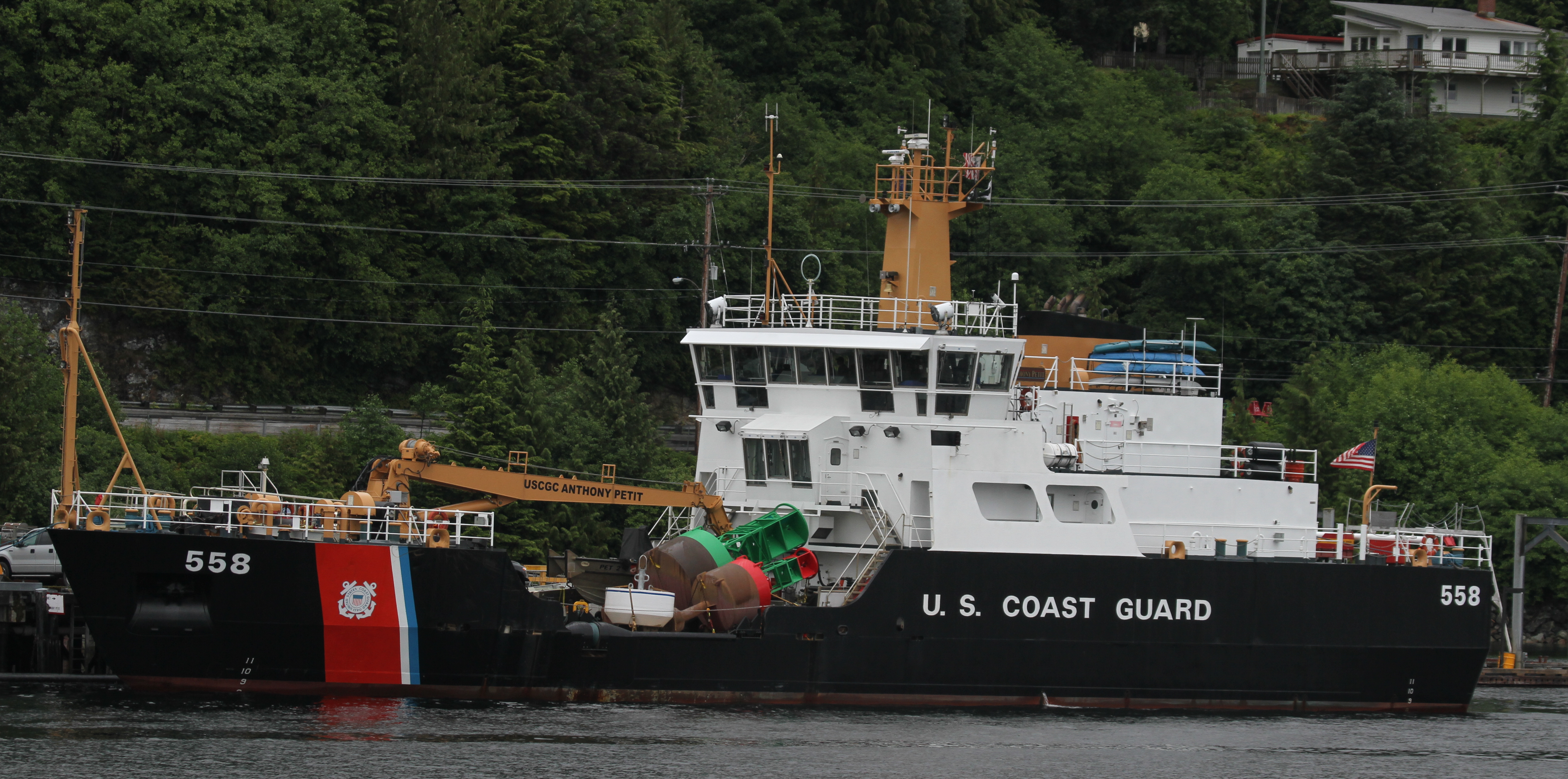 USCG Anthony Petit moored in Ketchikan